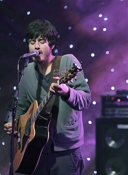 Tiago Iorc at EBS Space in Seoul on October 2010.